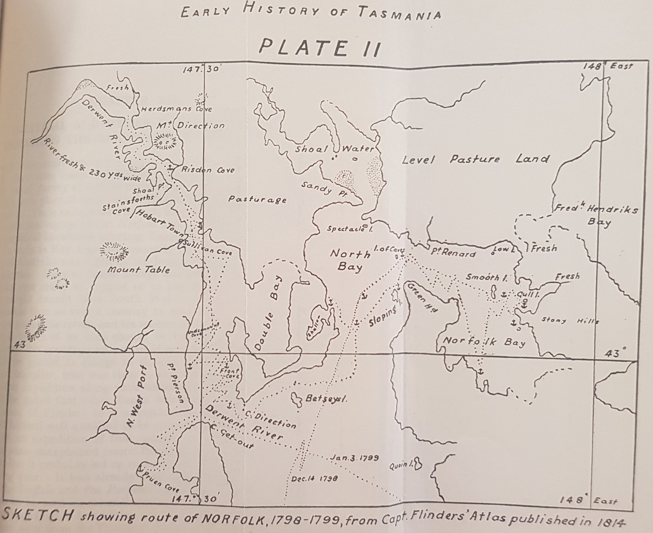 A sketch of Capt. Flinder's voyage through Norfolk Bay, Tasmania in 1814